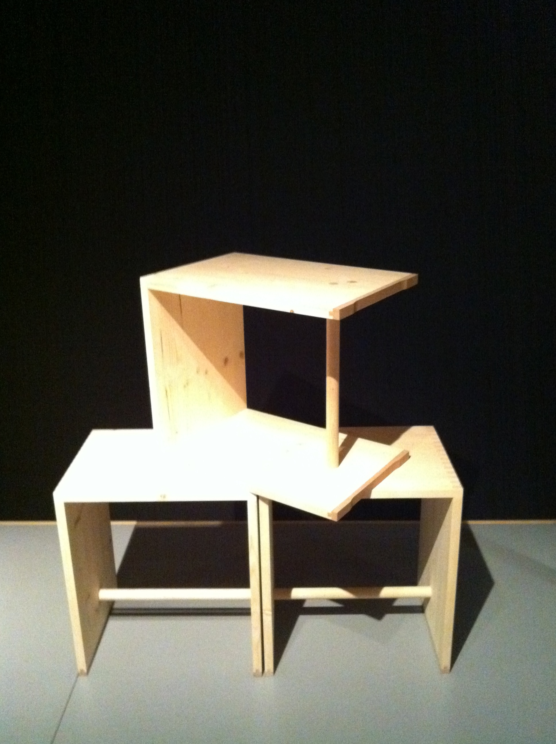 Systems design- The Ulm school. Exhibit at Disseny Hub Barcelona- DHUB Max Bill- Tamboret HFG Ulm-1954-Vitra Facsimil